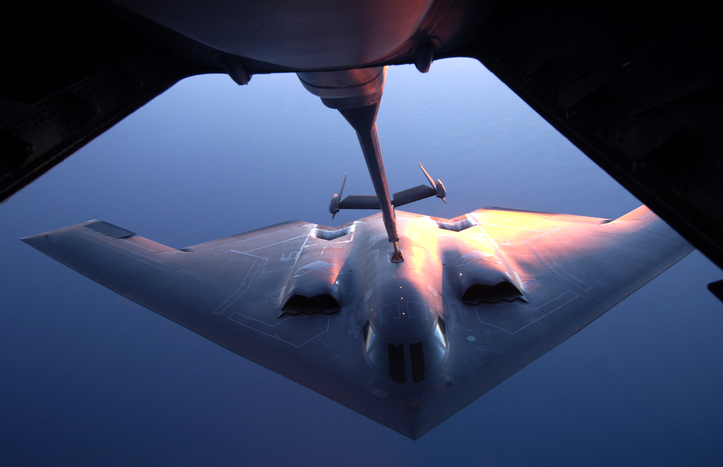 A B-2 Spirit is refueled by a KC-10 Extender over Australia during exercise Green Lighting on July 25. The KC-10 and B-2 are from the 36th Expeditionary Wing at Guam. The exercise is testing U.S. capabilities and operational familiarity in the region for the Pacific bomber presence. (U.S. Air Force photo/Tech. Sgt. Shane A. Cuomo)